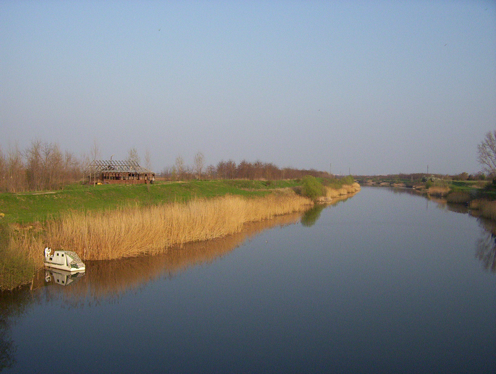 Canal Danube-Tisa-Danube in Serbia (my picture).